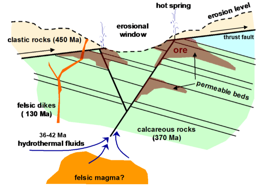 origin of Carlin-type gold deposits